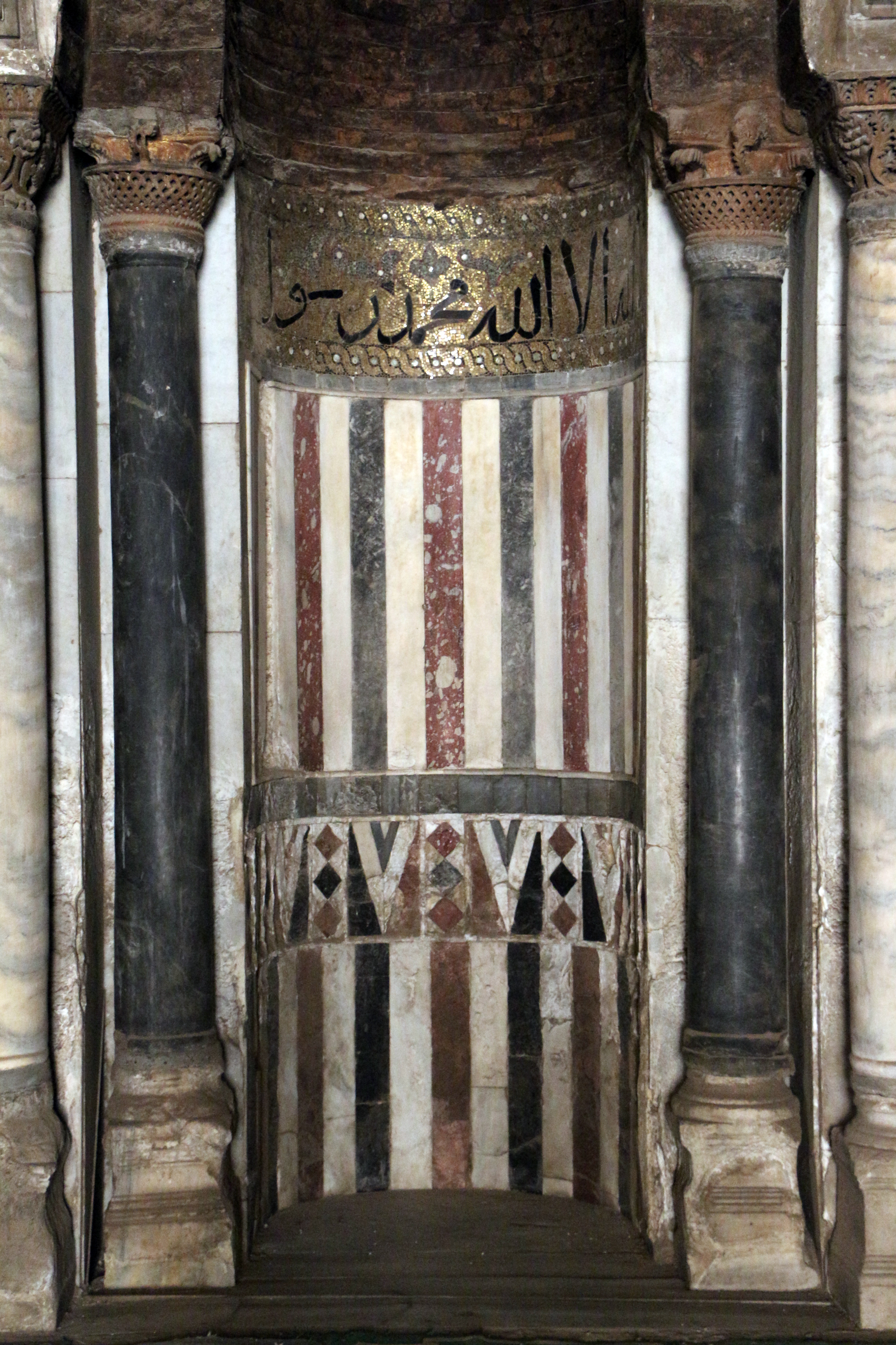 Mosque of Ibn Tulun